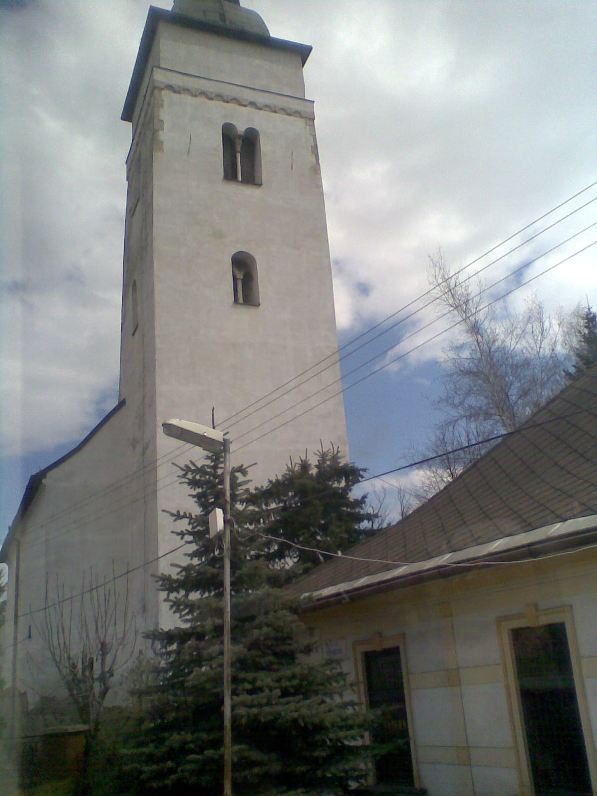 Church in the village Veľká Lomnica (Slovakia).